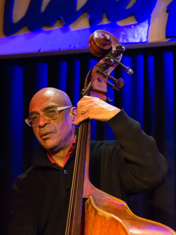 Paulo Cardoso, Jazz bassist; Picture taken in Jazz Club Unterfahrt, Munich/Bavaria